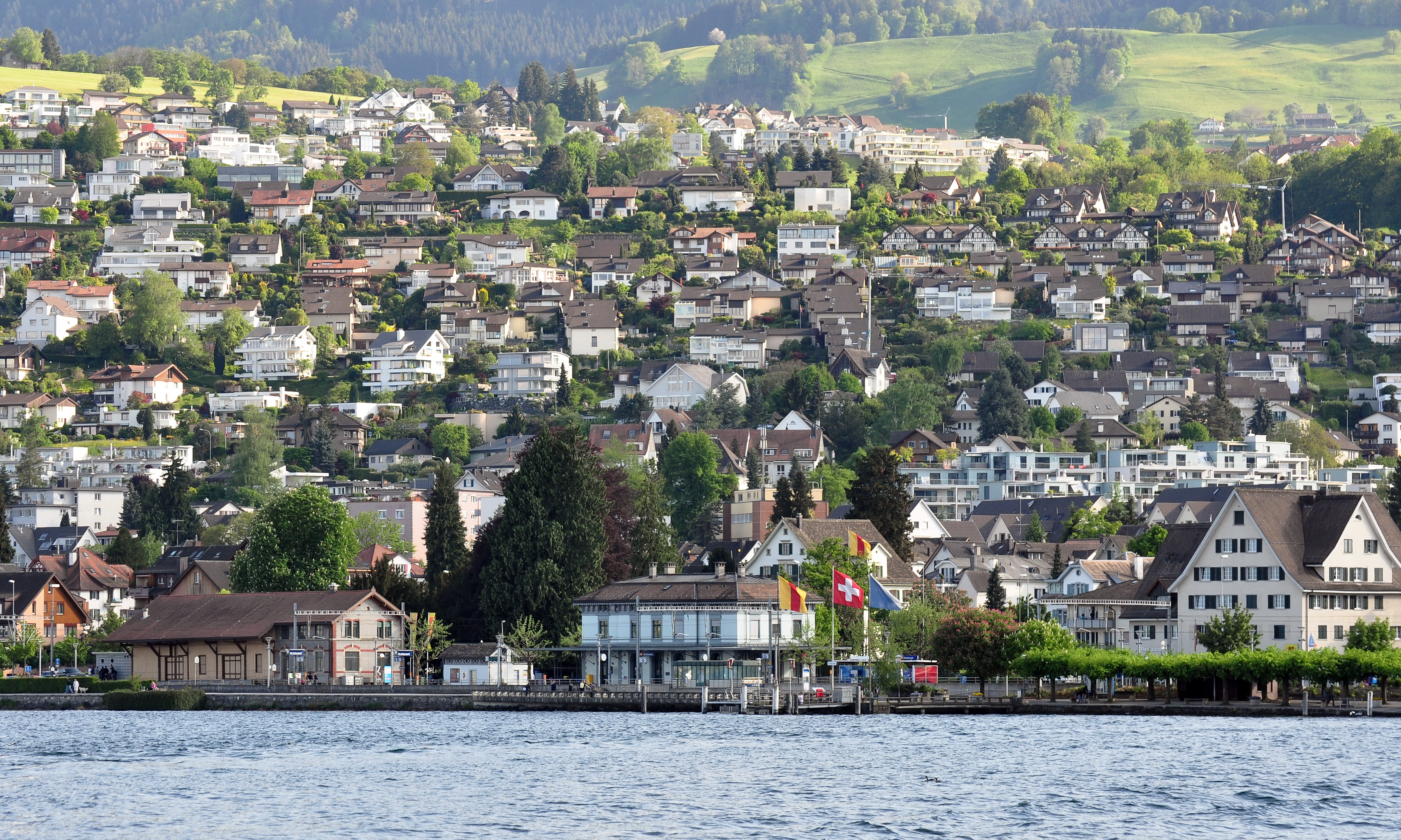 Richterswil (Switzerland) as seen from ZSG paddle steamship Stadt Rapperswil